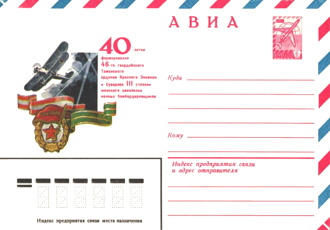 Artistic airmail envelope in commemoration of the 40th anniversary of the formation of the Order of the Red Banner and Suvorov 3rd Class, 46th Taman Guards Night Bomber Regiment. (aka the "Night Witches")